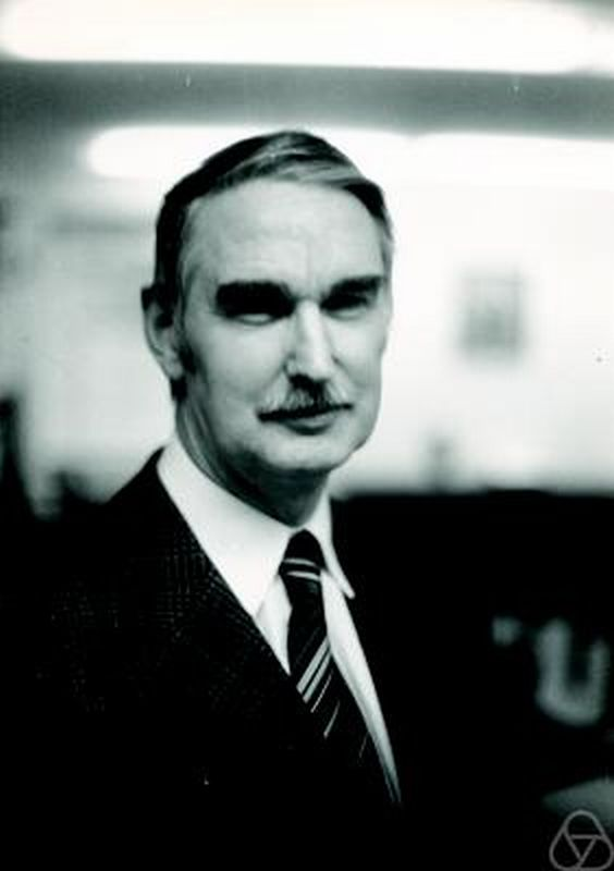 Wolfram Jehne, Erlangen 1976